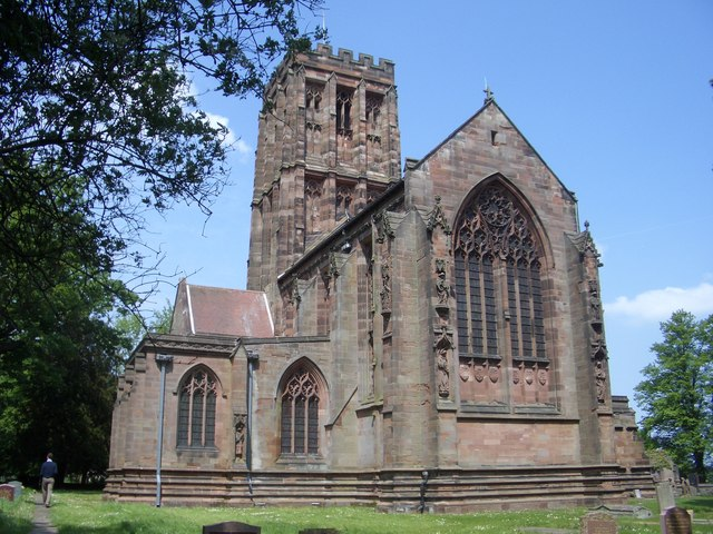 Church of the Holy Angels, Hoar Cross Built by the architect, George Frederick Bodley.